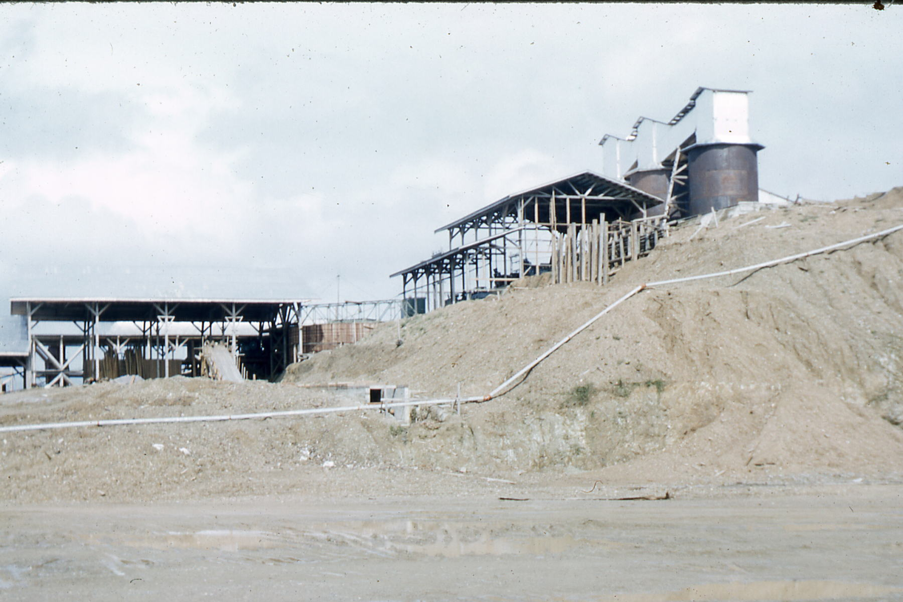 Bonanza Mine complex in the late 1950's